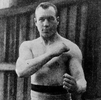 Gus Ruhlin, old-timer american boxer